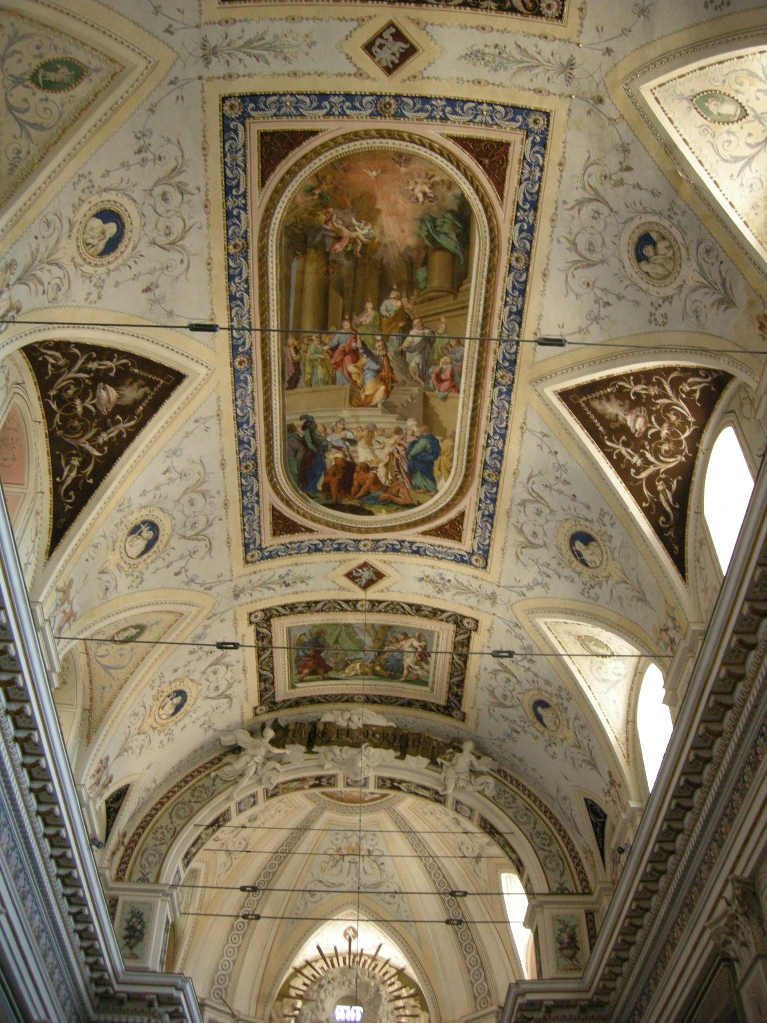 Descending of the Holy Spirit at Pentecost ( 1802 ), fresco by Tommaso Pollace.